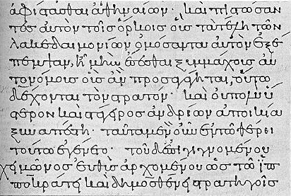 Greek manuscript, earliest form of minuscule script ("codex vetustissimus"), 10th Century, (Florence, Laurentian Library, lxix.2) Text: from Thucycdides, Peleoponnesian War, book 4, chapter 88f. Transcription: ἀφίστασθαι ἀθηναίων · καὶ πιστώσαν- τες αὐτὸν τοῖς ὄρκοις οὕς τὰ τέλη τῶν λακεδαιμονίων ὀμόσαντα αὐτὸν ἐξέ- πεμψαν, ἦ μὴν εὔεσθαι ξυμμάχους αὐ- τονόμους οὑς ἂν προσαγάγηται, οὕτω δέχονται τὸν στρατόν· καὶ ὀυ πολὺ ὕ- στερον καὶ στάγειρος ἀνδρέων ἀποικία ξυναπέστη· ταῦτα μὲν οῦν ἐν τῶ θέρει τούτο ἐγένετο· τοῦ δ' ἐπιγιγνομένου χειμῶνος ἐυθὺς ἀρχομένου ὡς τῶ ἱπ- ποκράτει καὶ δημοσθένει στρατηγοῖς Translation: "[...] to revolt from Athens; not however admitting the army until they had taken his personal security for the oaths sworn by his government before they sent him out, assuring the independence of the allies whom he might bring over. Not long after, Stagirus, a colony of the Andrians, followed their example and revolted. Such were the events of this summer. It was in the first days of the winter following [...] into the hands of the Athenian generals, Hippocrates and Demosthenes [...]"